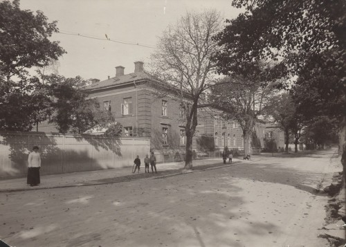 Atministration- and funktionærbygninger at Almindelig Hospital on Nørre Allé in Copenhagen, Denmark